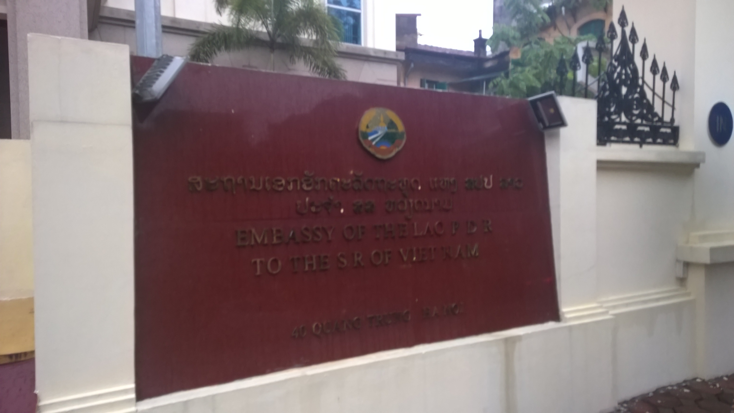 Sign of the Lao Embassy to Hanoi in 2015.